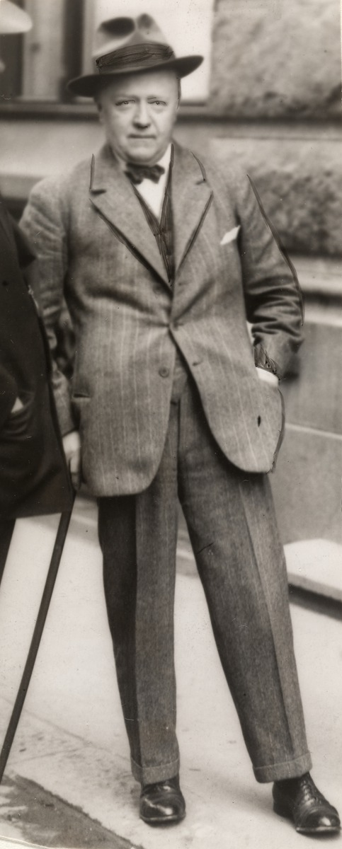 Norwegian attorney, genealogist and politician Vigleik Trygve Sundt photographed in 1930s